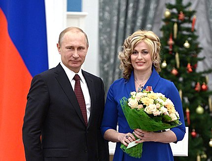 Aerobatics pilot Svetlana Kapanina received the Order of Courage on 22 December 2014 at an awards ceremony at the Kremlin. Here she is pictured with Russian President Vladimir Putin